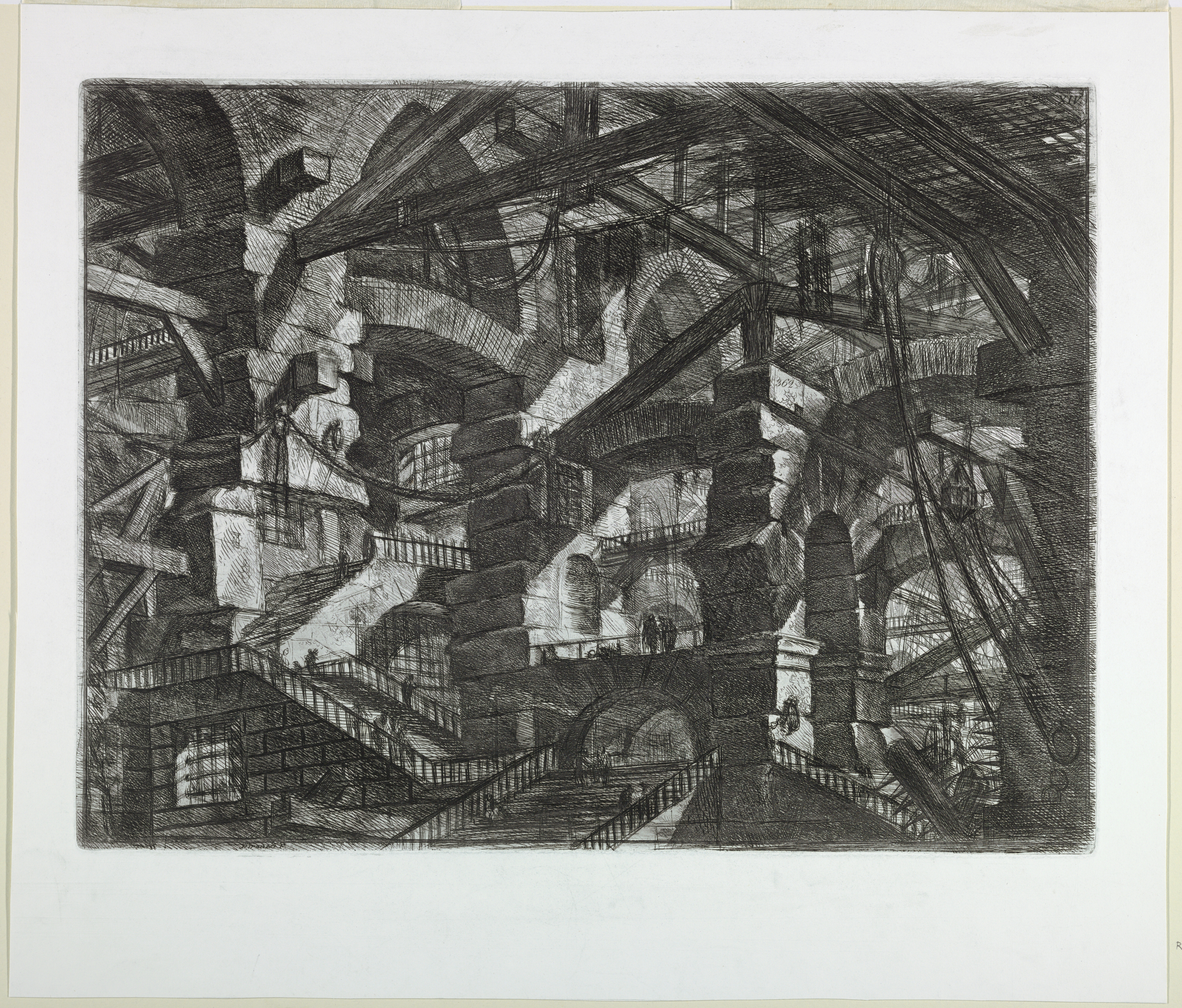 Horizontal rectangle. Multiple vaults supported on rusticated piers and strengthened by wooden cross-beams. A broad staircase rises to the left. Center right, Calcografia number 362.